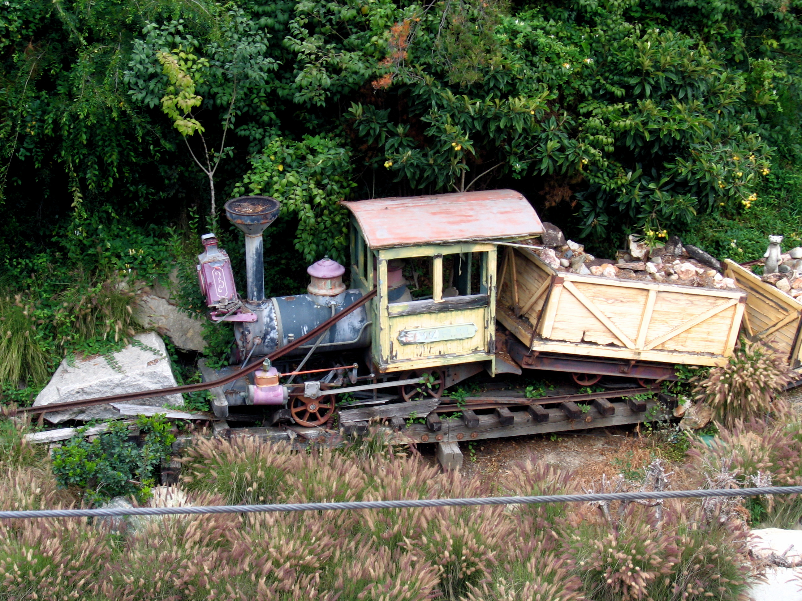 Mine Train Accessory at Disneyland